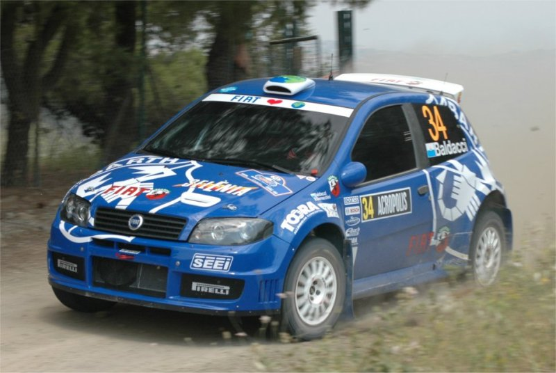 Mirco Baldacci driving a Fiat Punto S1600 at the 2005 Acropolis Rally.